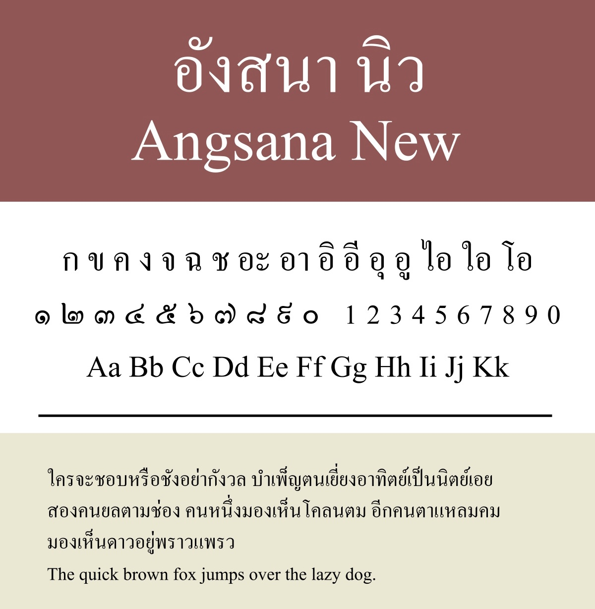 Angsana New sample text in Thai and latin